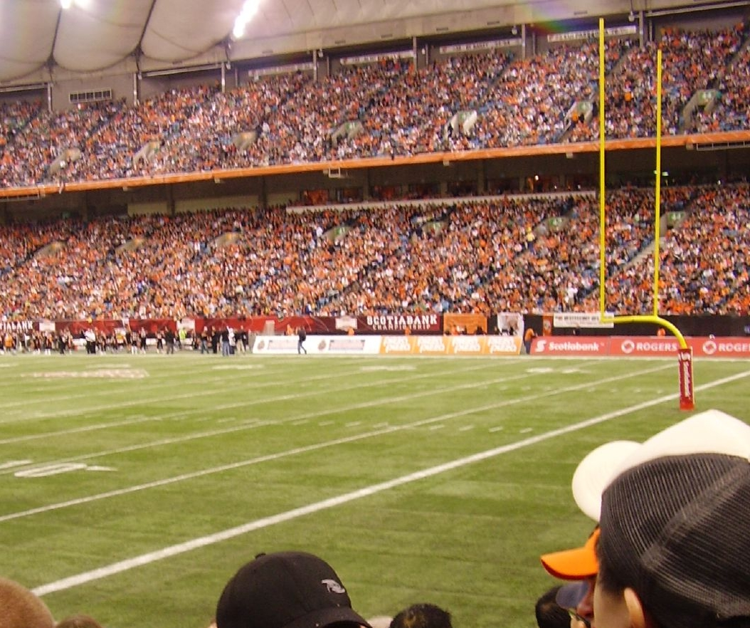 2006 CFL West Division Final (Saskatchewan Roughriders at BC Lions, BC Place Stadium, November 12, 2006)